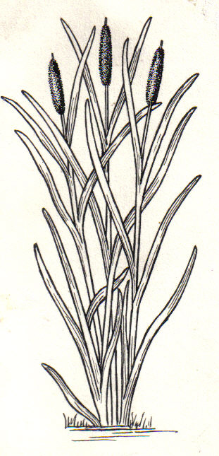 line art drawing of cattail.